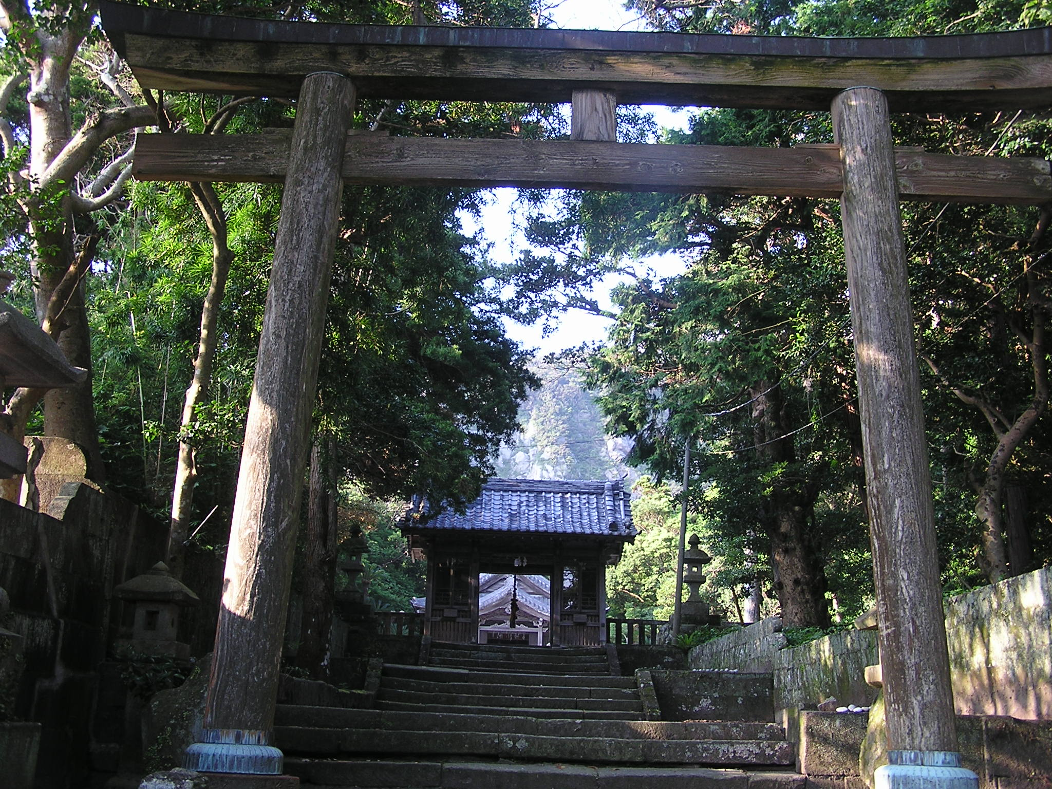 Niijima Jyusansha Shrine